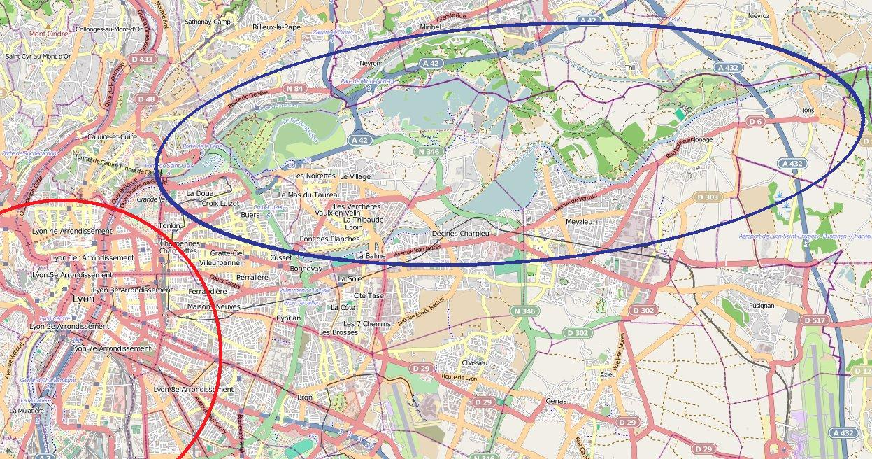 Carte représentant le périmètre du projet d'aménagement Anneau Bleu, du Grand Lyon, autour du parc de Miribel-Jonage.